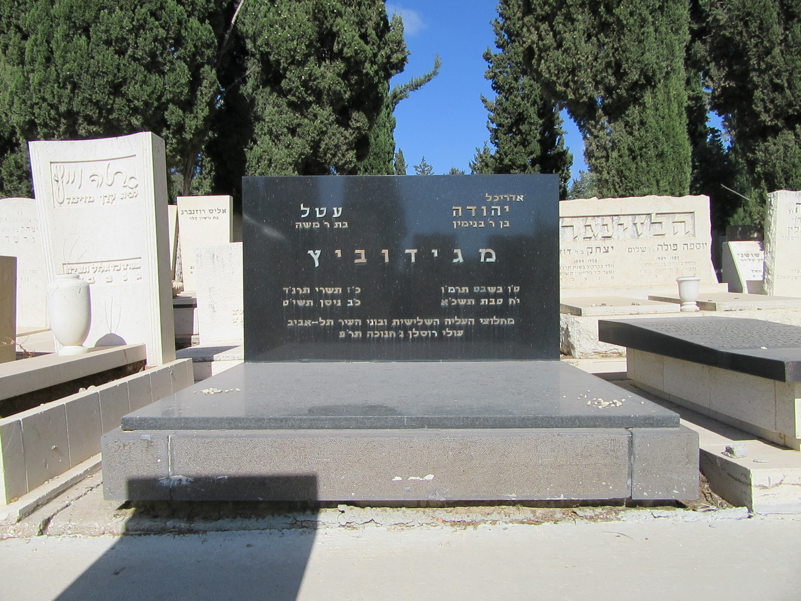 Yehuda Magidovitch grave in Kiryat Shaul Cemetery in Tel Aviv